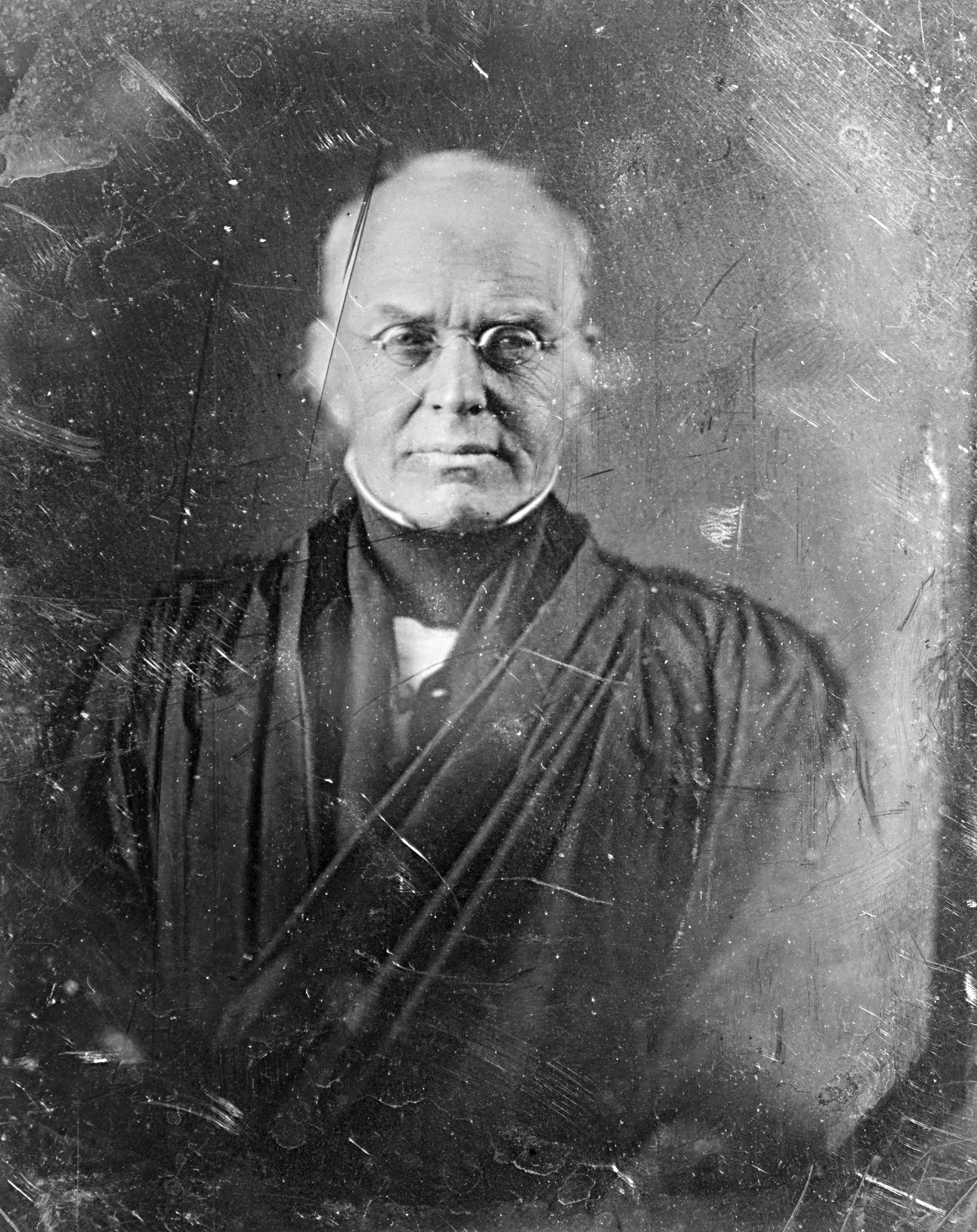 Daguerreotype of Supreme Court justice Joseph Story.